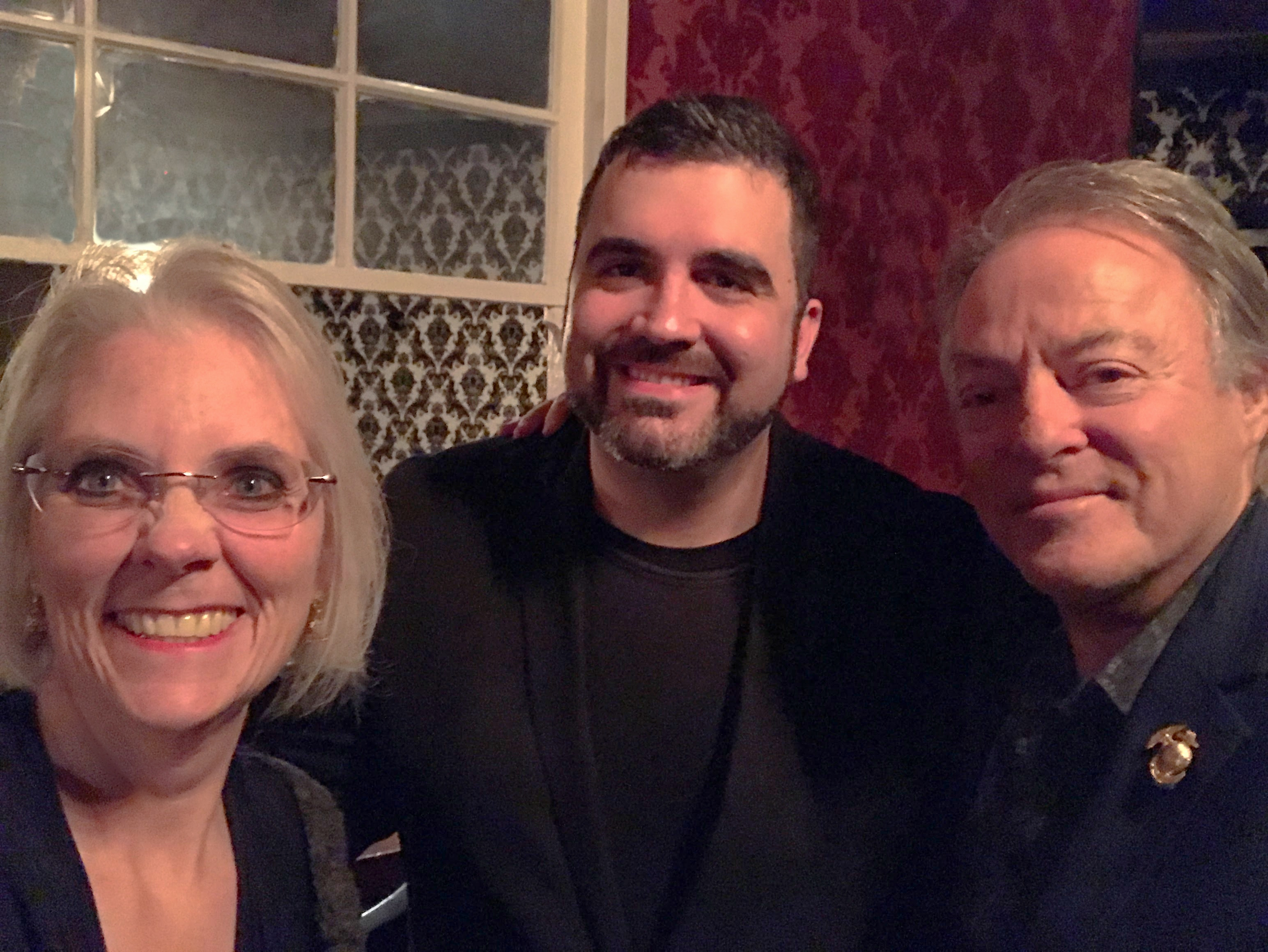 Selfie taken at VIP session with Thomas John. Gerbic and Edward were undercover as Suzanne and Mark Wilson. Thomas John gave them both detailed readings that matched completely the fake Facebook accounts attached to them, that Gerbic and Edward did not have access to.